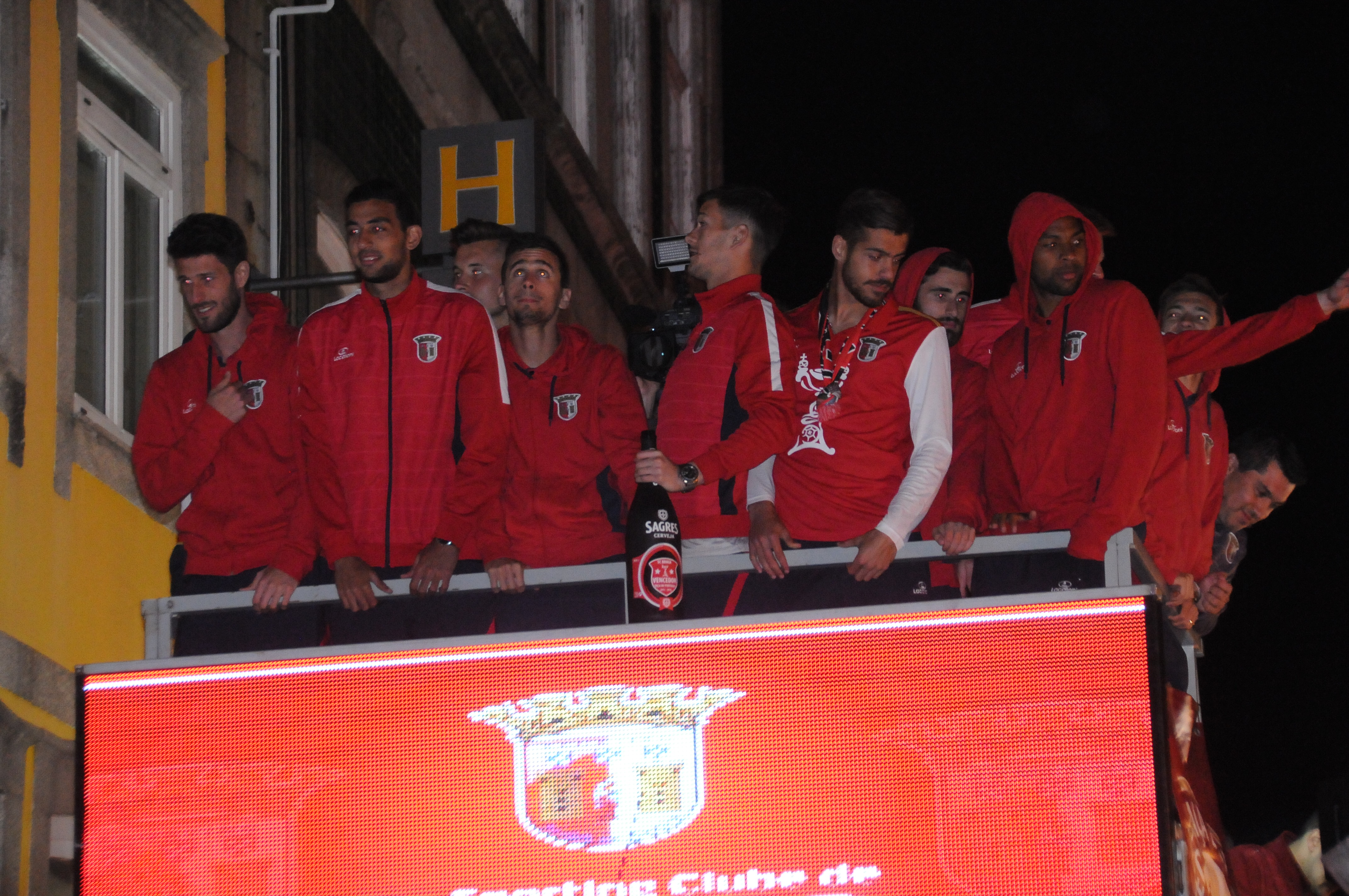 Sporting Clube de Braga in 2016 in Braga